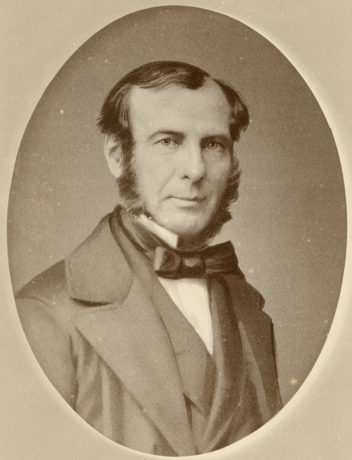 Depicted person: James Farrell – Irish dean